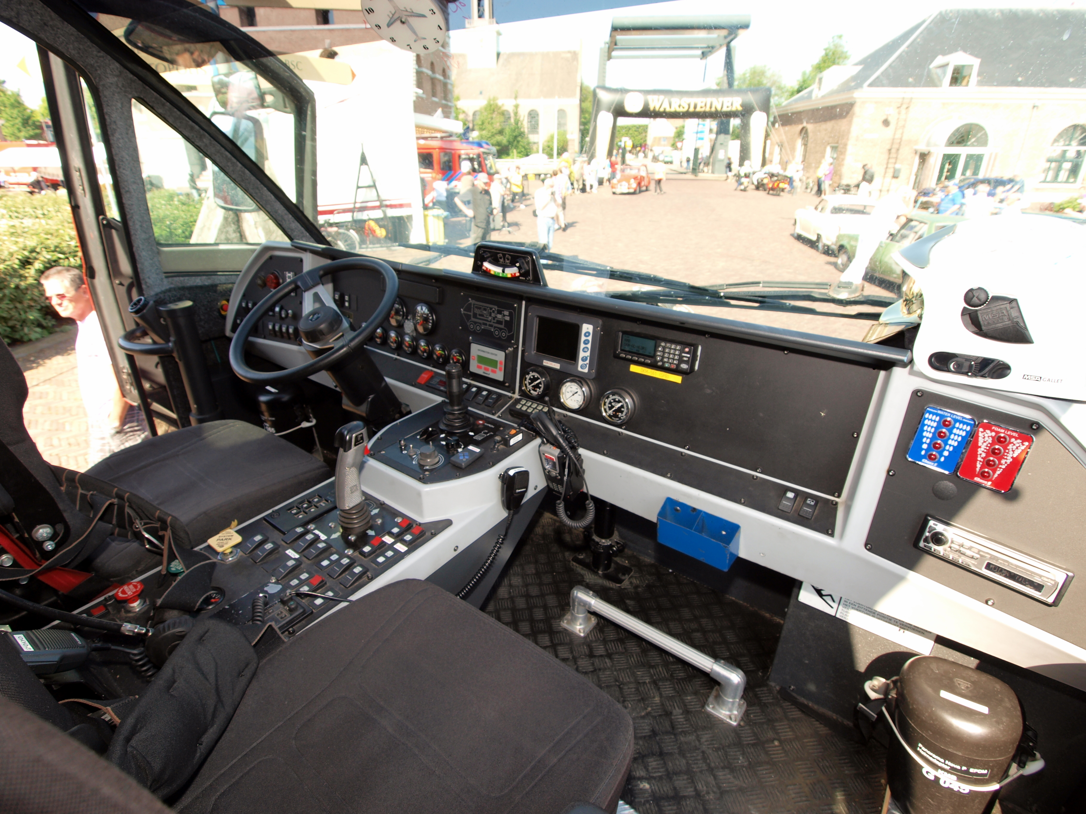 Photographed at Den Helder, The Netherlands. OLYMPUS DIGITAL CAMERA